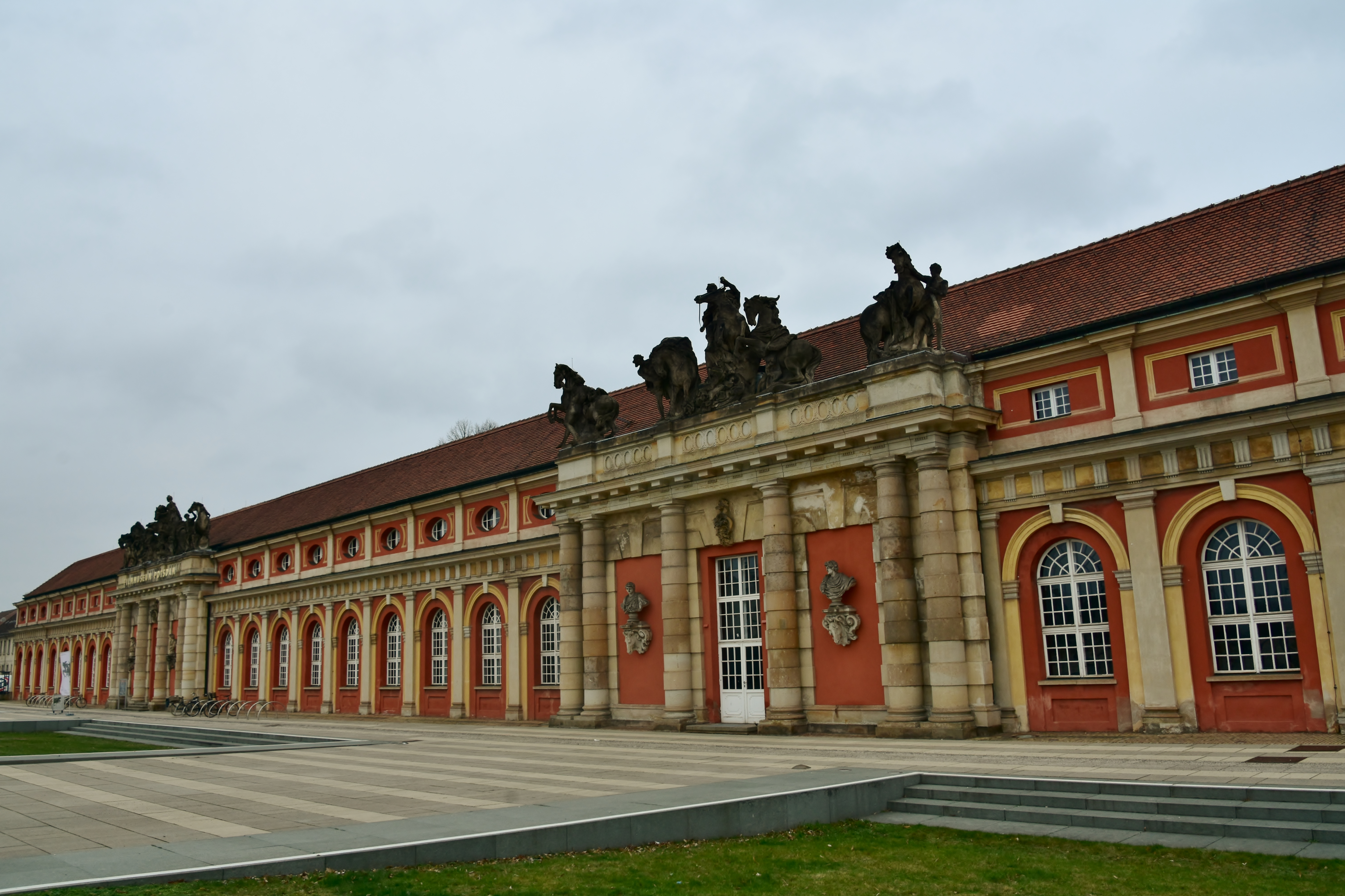 Marstall, Baroque 17th cent. court stables, Potsdam